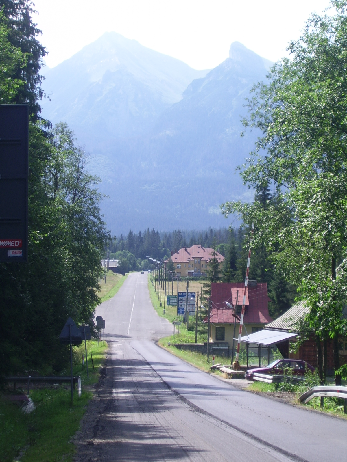 Border between Slovakia and Poland near Jurgów, Poland; In background the Belianske (Bielskie) Tatras